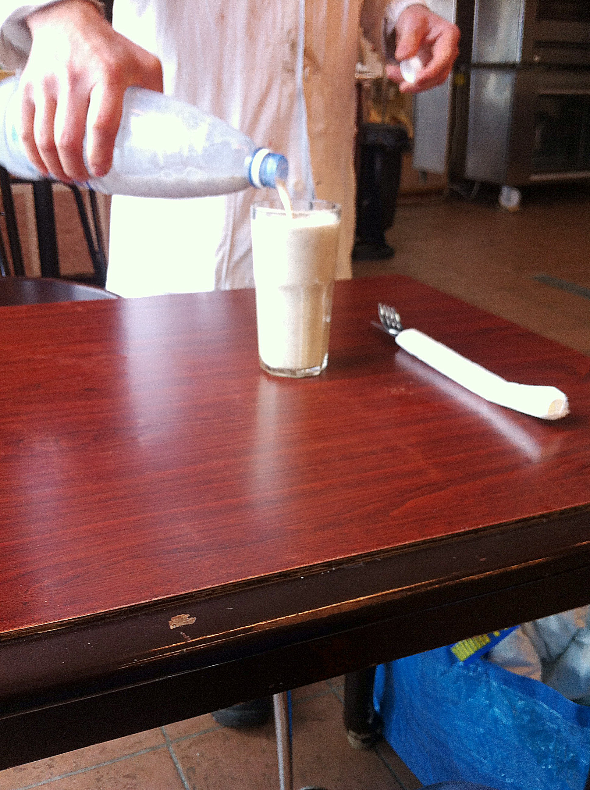 A man serving ayran in Gothenburg, Sweden, 2013